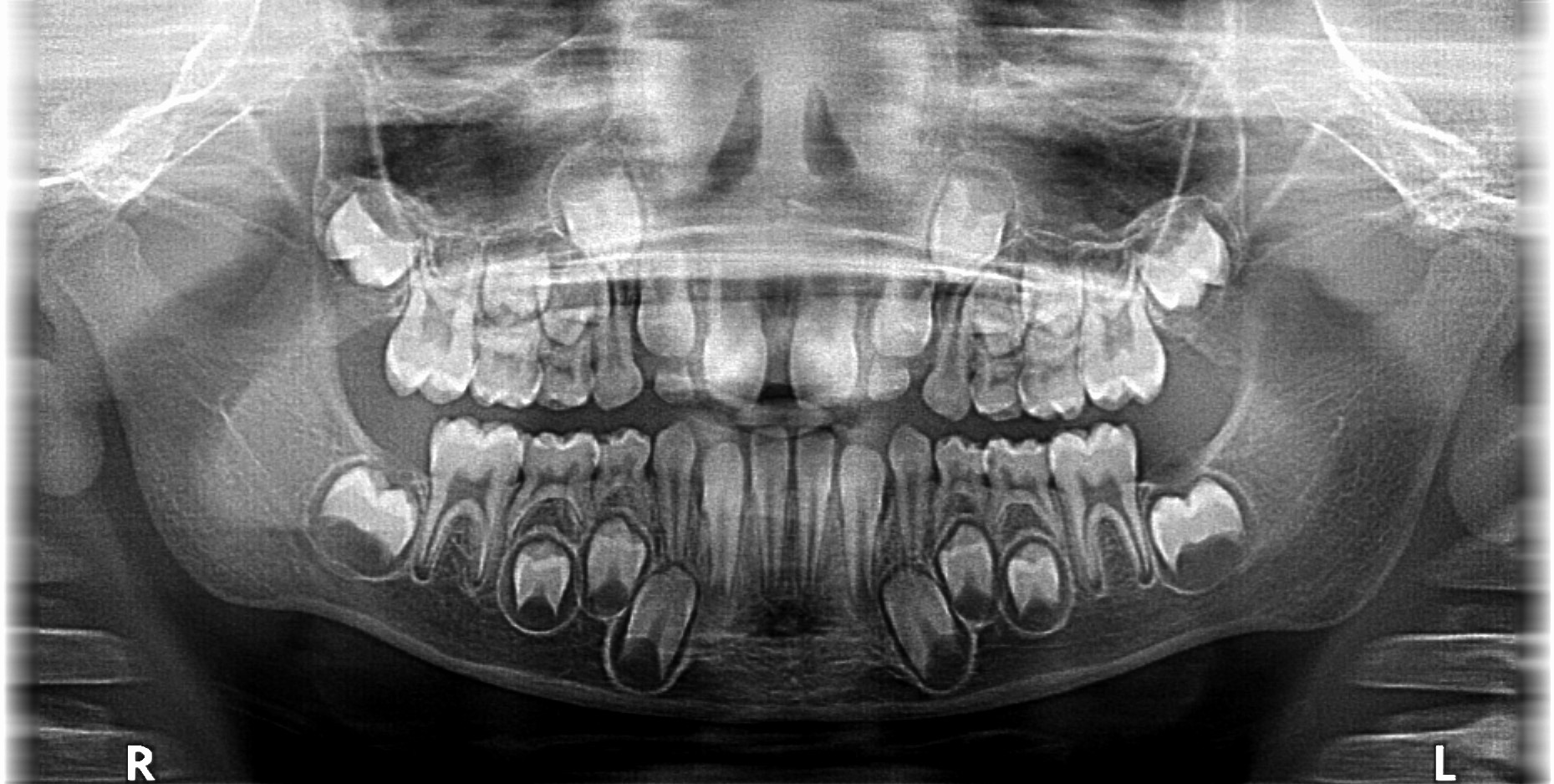 Teeth panoramic radiograph, of boy born in 10.12.2011 (eight years old). On the image it is visible mixed Deciduous and Permanent teeth.